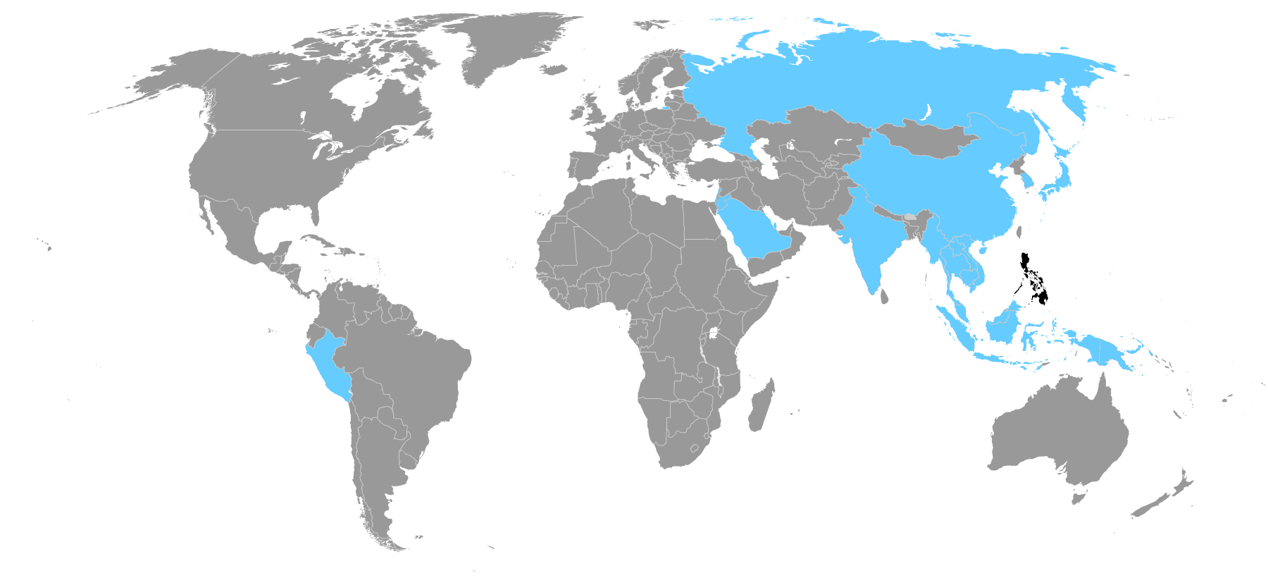 This map was created with GunnMapGunnMap was created by Arthur Gunn and is available, free, at and attribute by linking to Foreign trips of Philippine President Rodrigo Duterte Philippines Countries visited by Duterte